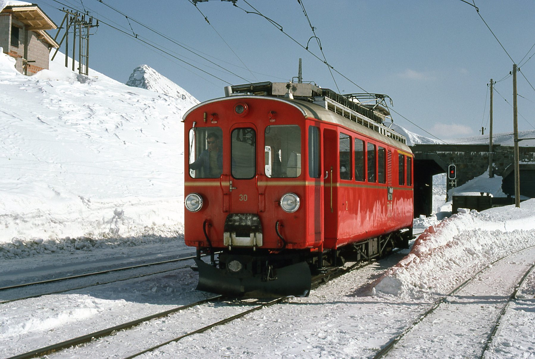 ABe 4/4 I No. 30 at Bernina-Hospiz railway station. This former Berninabahn unit No. 22 was rebuilt and painted red in 1953. Since 2000 it is carrying it's original yellow livery again.